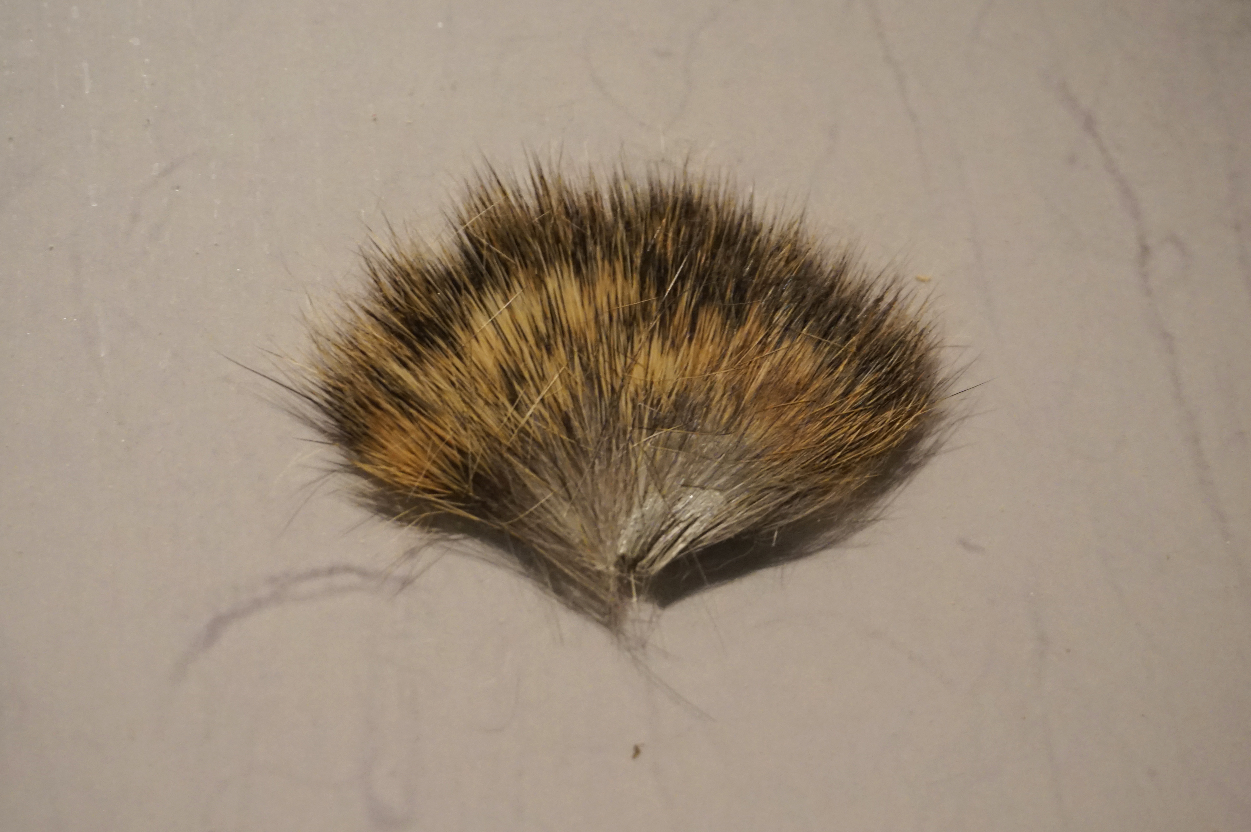 Hares' fur, which is used to make ink brushes for calligraphers in China.